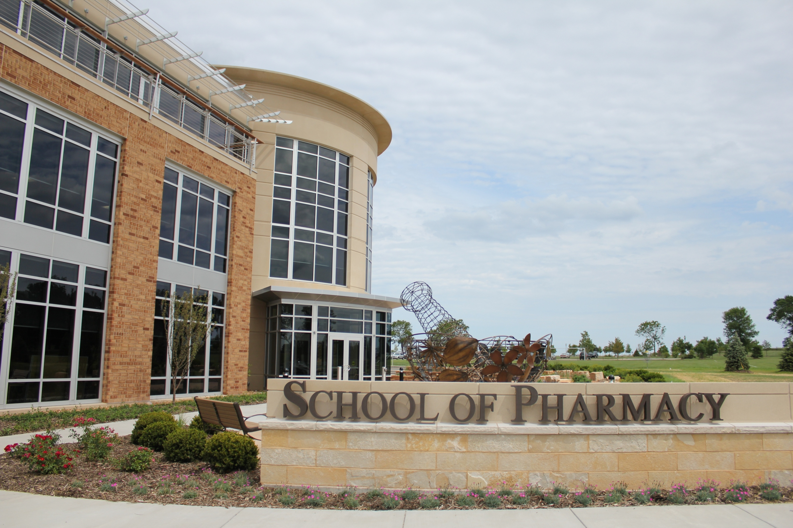 Front entrance to the Concordia University Wisconsin School of Pharmacy.